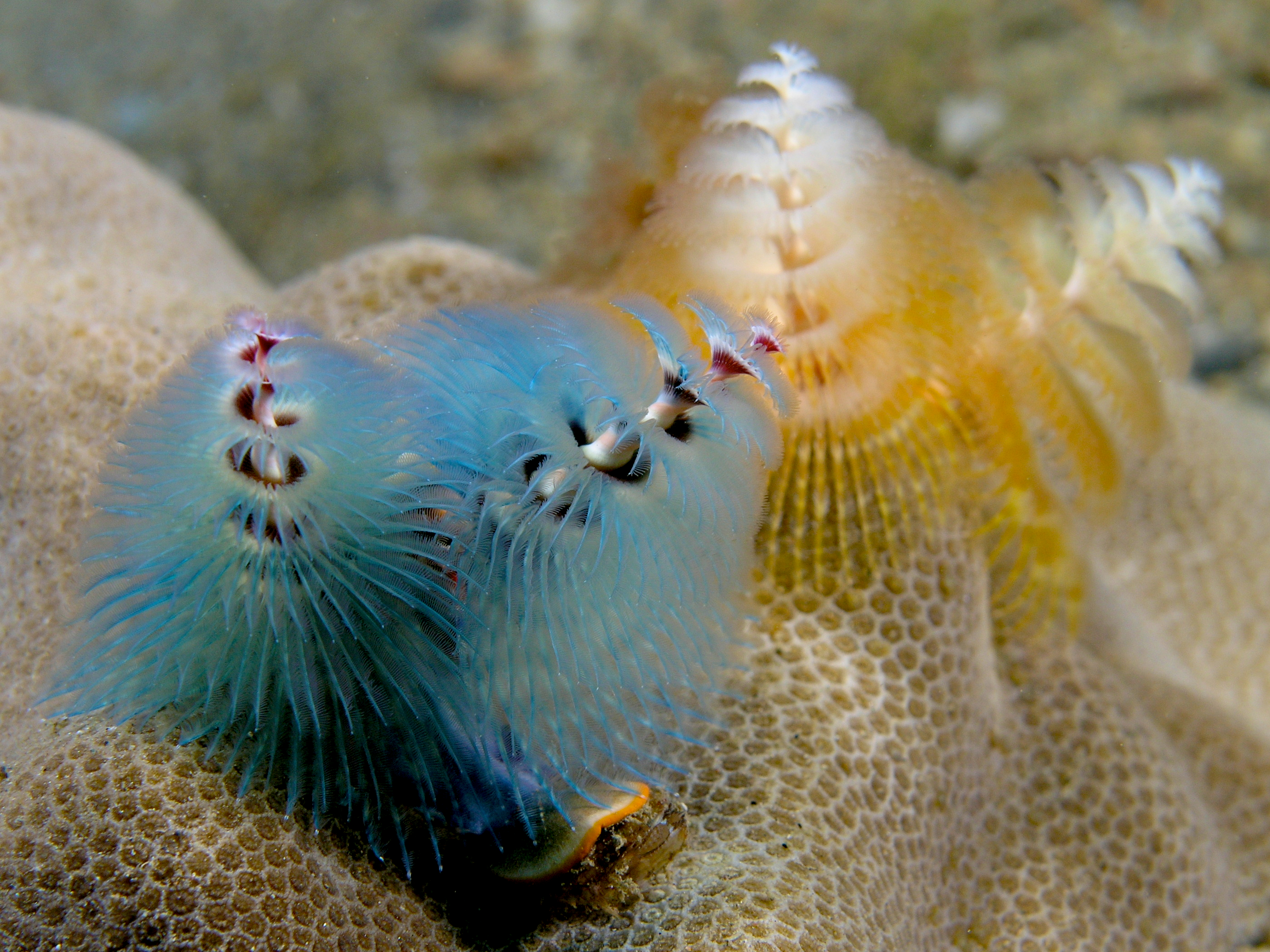 Spirobranchus giganteus (Blue and peach chrstmas tree worms)